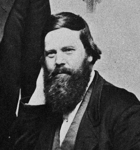 Charles Francis Hall in the only known photograph taken in Washington in the winter of 1870